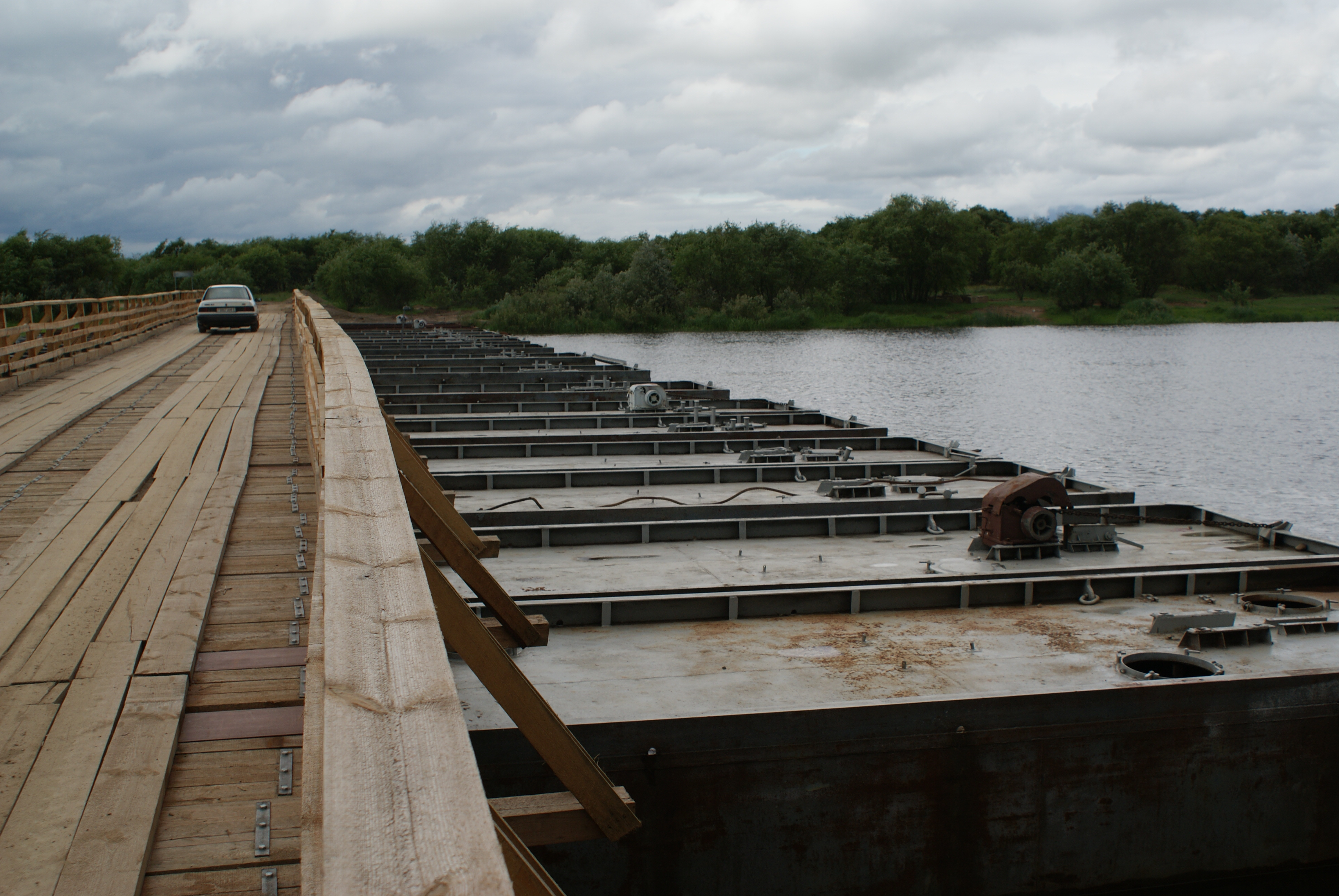 Pontoon bridge on Sozh